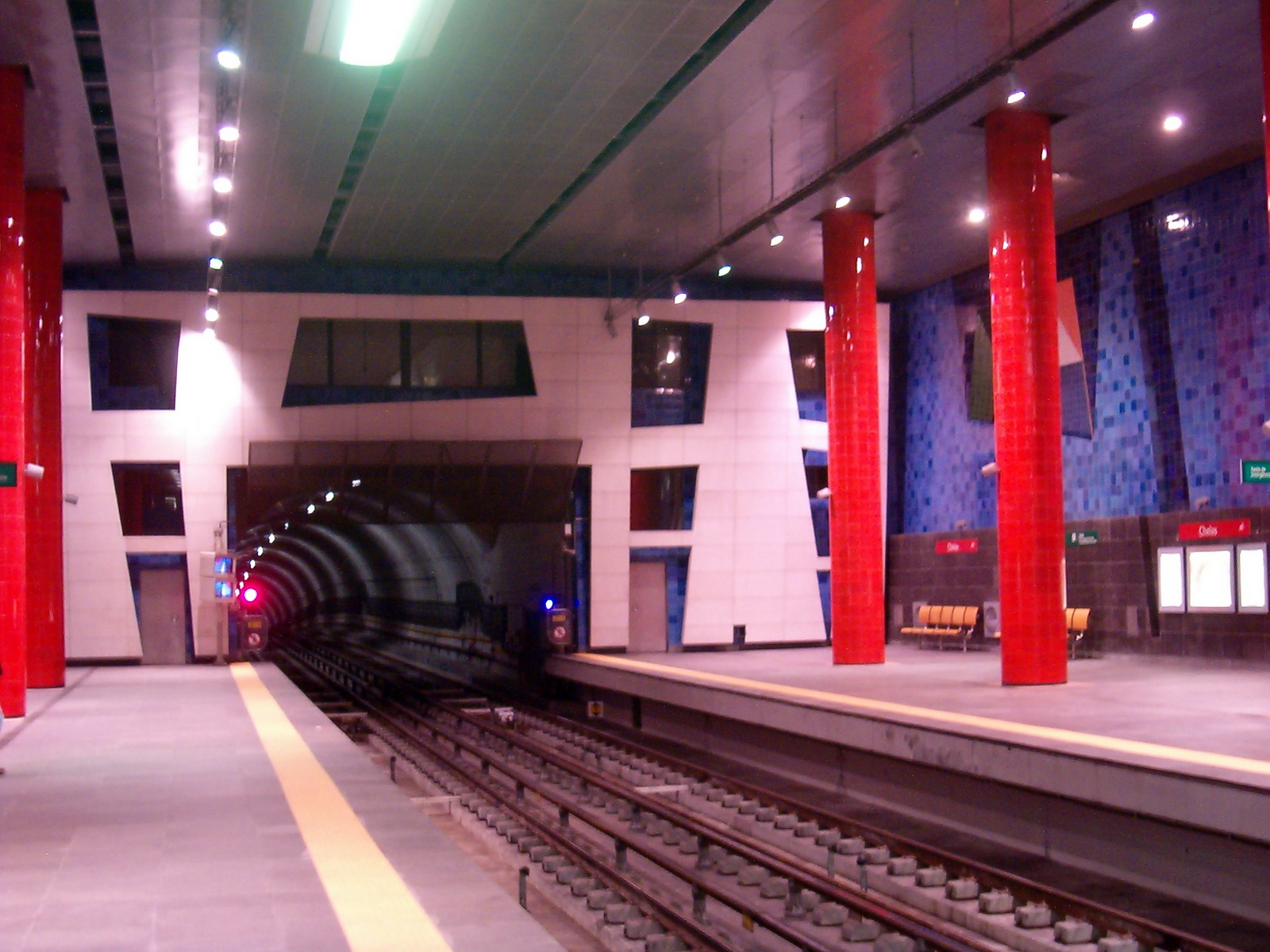 Metro station Chelas (Lisboa)